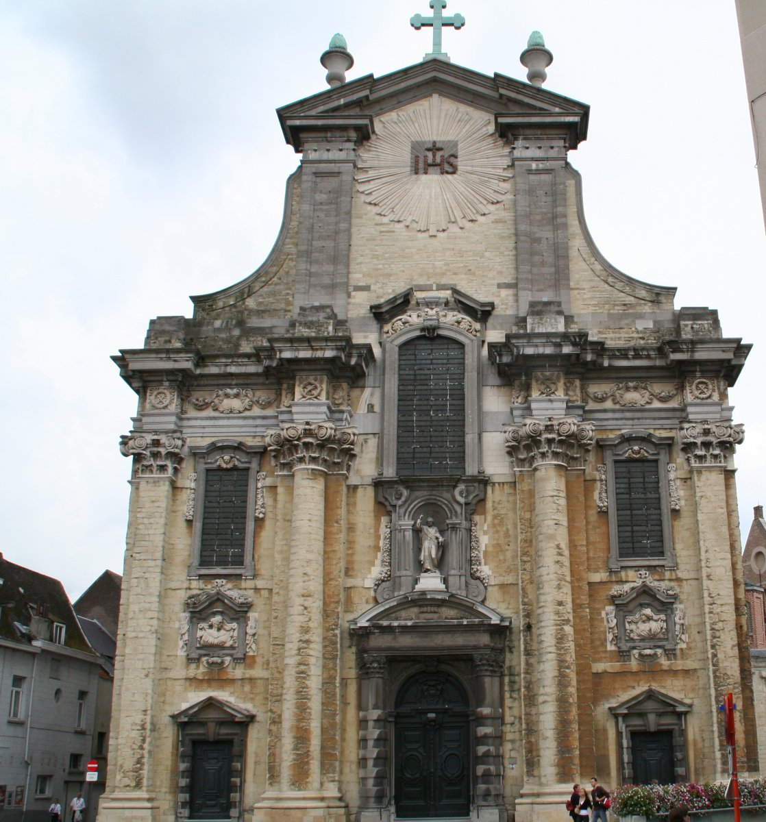 Fassade of Saints Peter and Paul church, Mechelen, Belgium